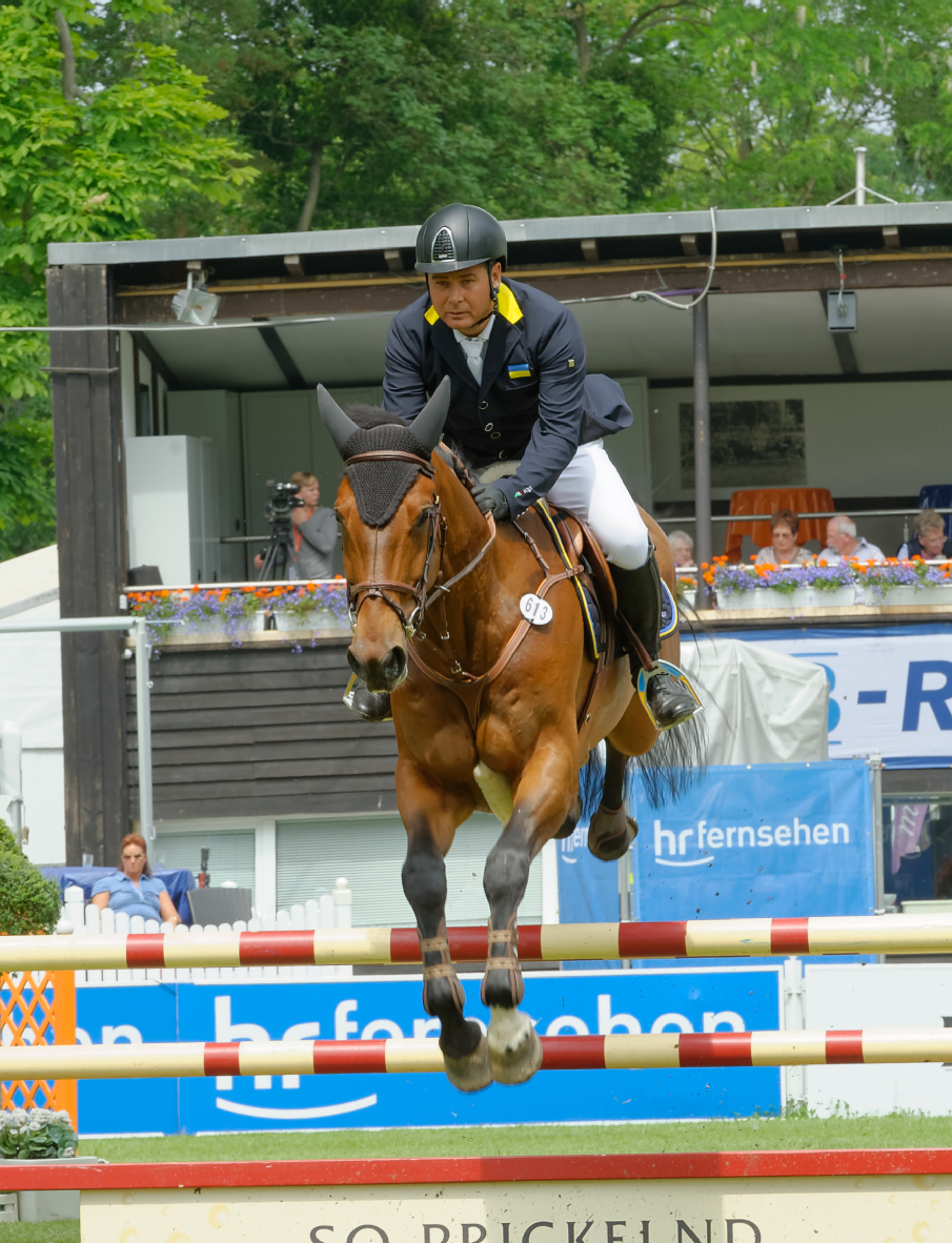 CSIYH* int. Springprüfung nach Strafpunkten und Zeit Internationales Pfingstturnier Wiesbaden 2015 The making of this document was supported by the Community-Budget of Wikimedia Germany.